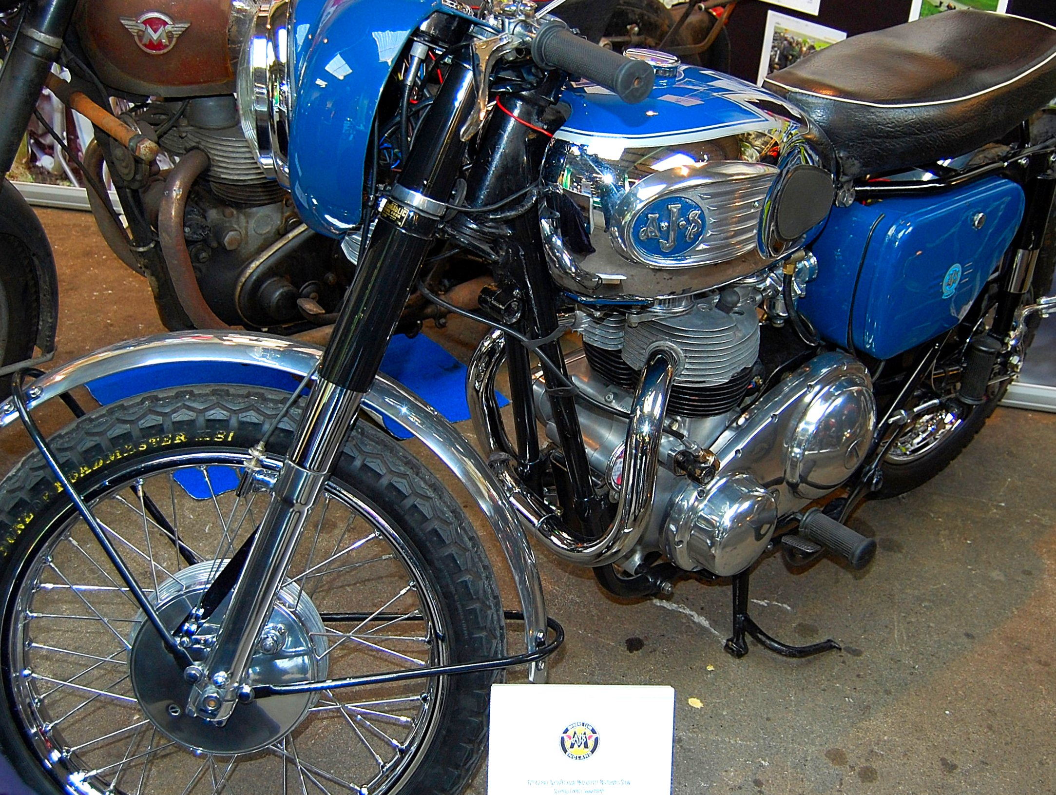 AJS was the name used for cars and motorcycles made by the Wolverhampton, England, company A. J. Stevens & Co. Ltd, from 1909 to 1931, by then holding 117 motorcycle world records, and after the firm was sold the name continued to be used by Matchless, Associated Motorcycles and Norton-Villiers on four-stroke motorcycles till 1969, and since the name's resale in 1974, on lightweight, two-stroke scramblers and today on small-capacity roadsters and cruisers. Associated Motor Cycles (AMC) was a British motorcycle manufacturer founded by the Collier brothers as a parent company for the Matchless and AJS motorcycle companies. It later absorbed Francis-Barnett, James, and Norton before incorporation into Norton-Villiers.